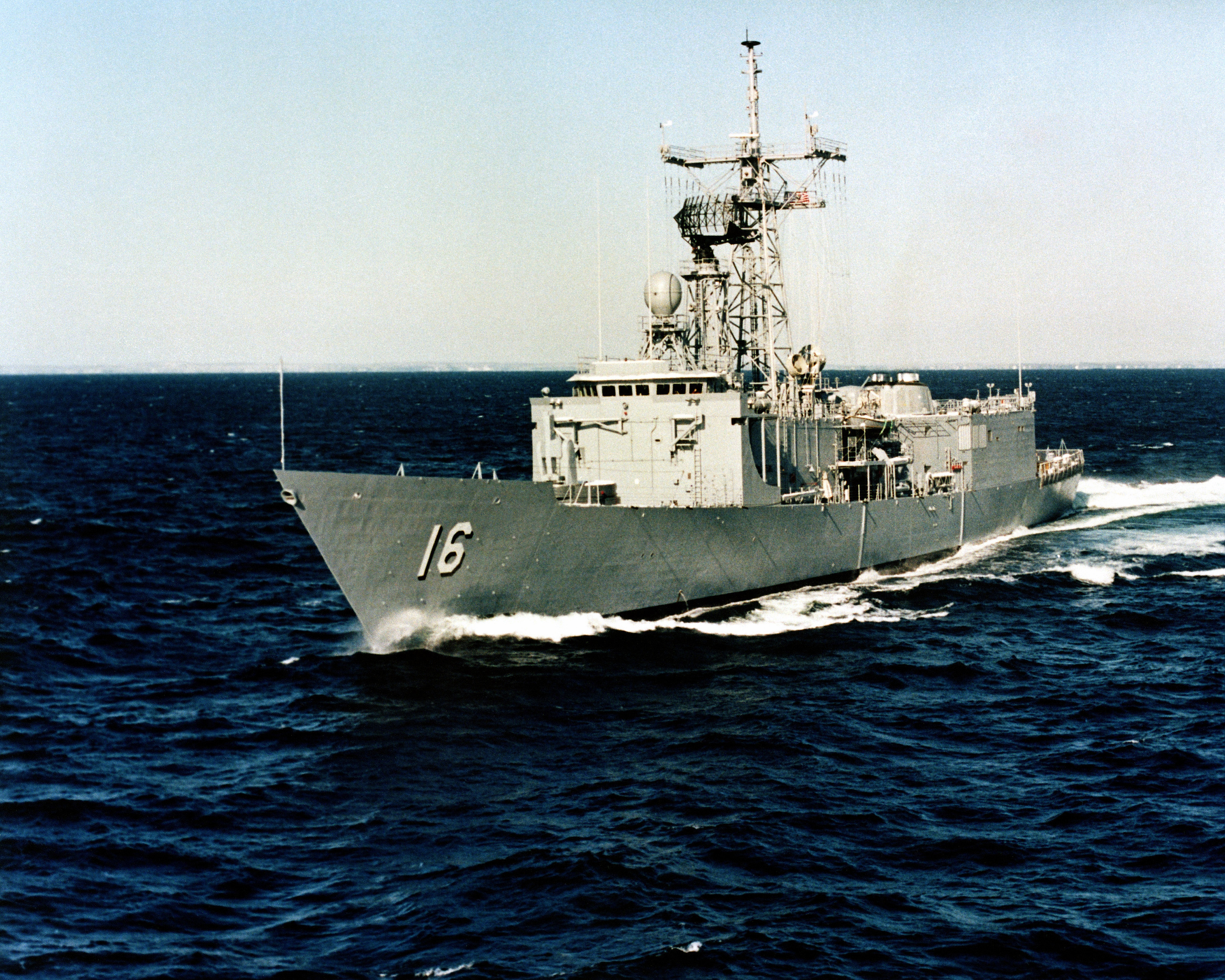 Aerial starboard bow view of the guided missile frigate CLIFTON SPRAGUE (FFG-16) underway during sea trials.